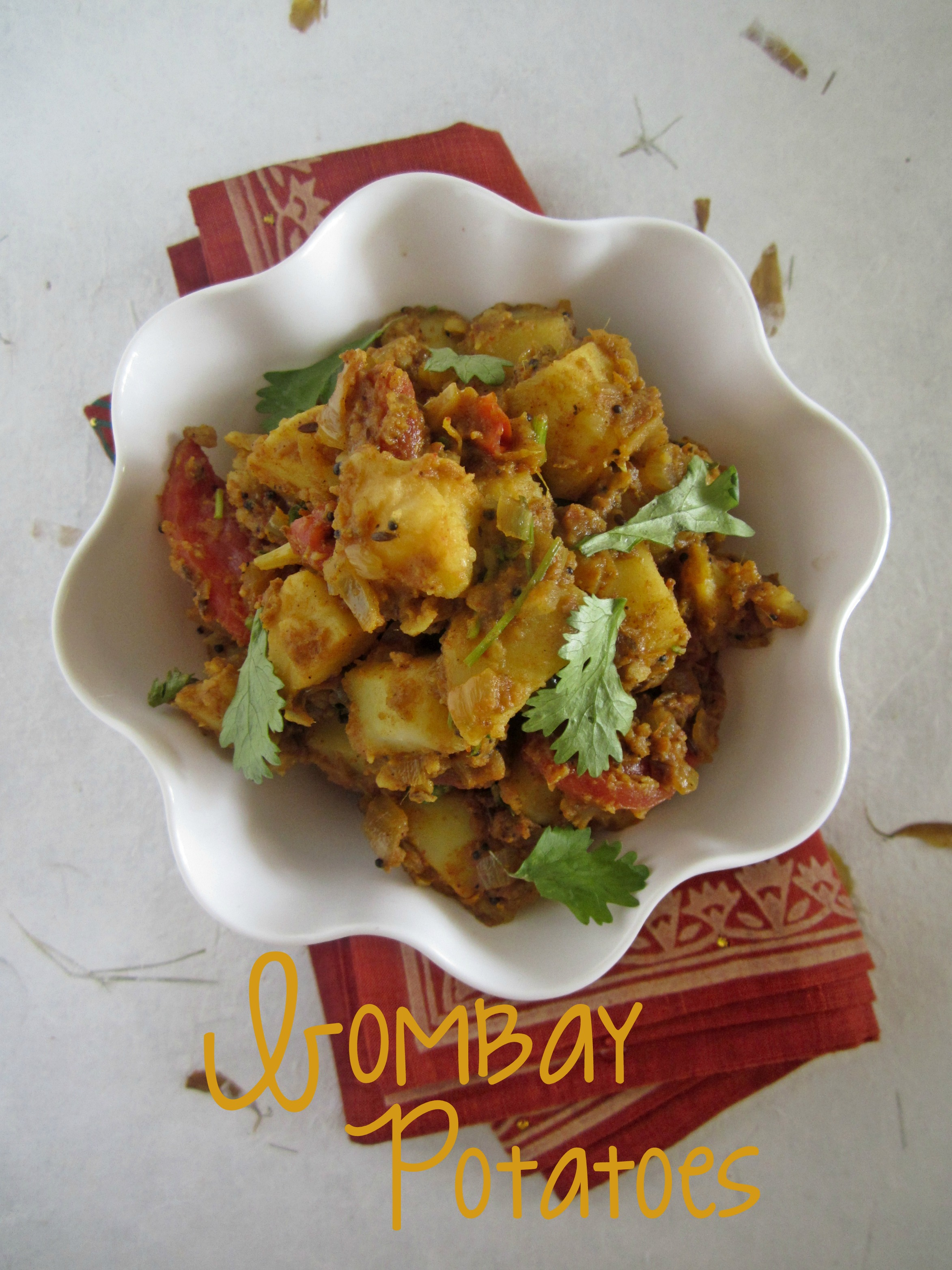 Bombay Potatoes Foods of India